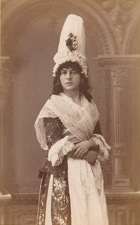 Norwegian psychiatrist Henrik Arnold Thaulow Dedichen (1863–1935). Photo from about 1883.